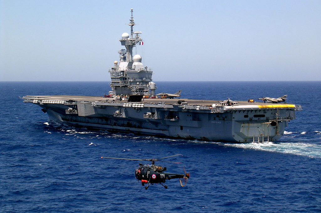 Nuclear aircraft carrier Charles de Gaulle (R 91)